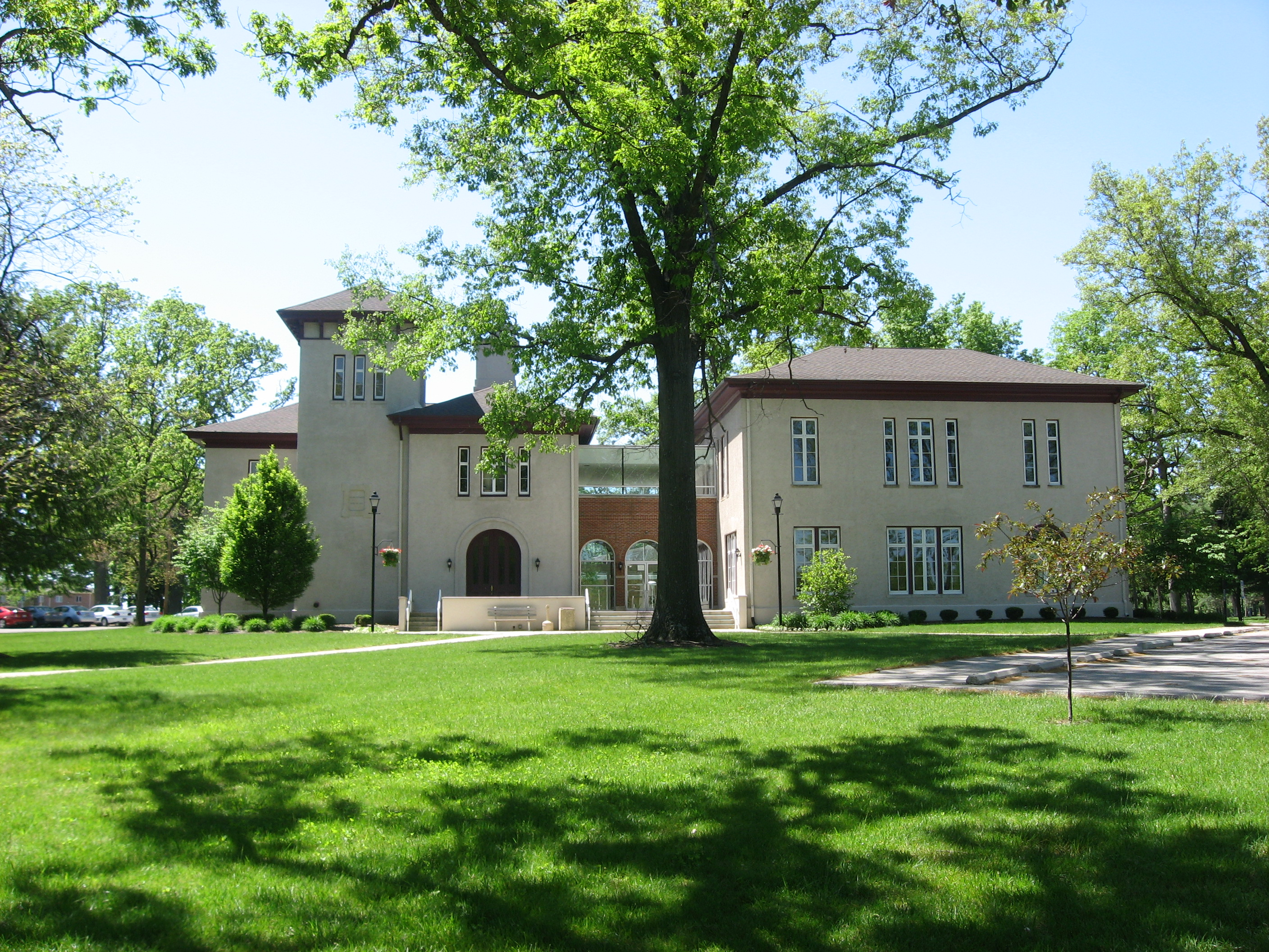 Bailey and Barclay Halls on the campus of Urbana University in Urbana, Ohio, United States. Built in 1856 and 1883, they are among the Urbana College Historic Buildings, a historic district that is listed on the National Register of Historic Places.